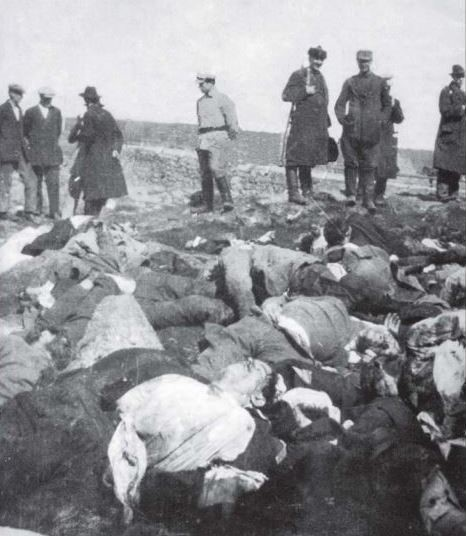 1918 Finnish Civil War: Victims of the Vyborg Massacre in the Annenkrone Fortification.